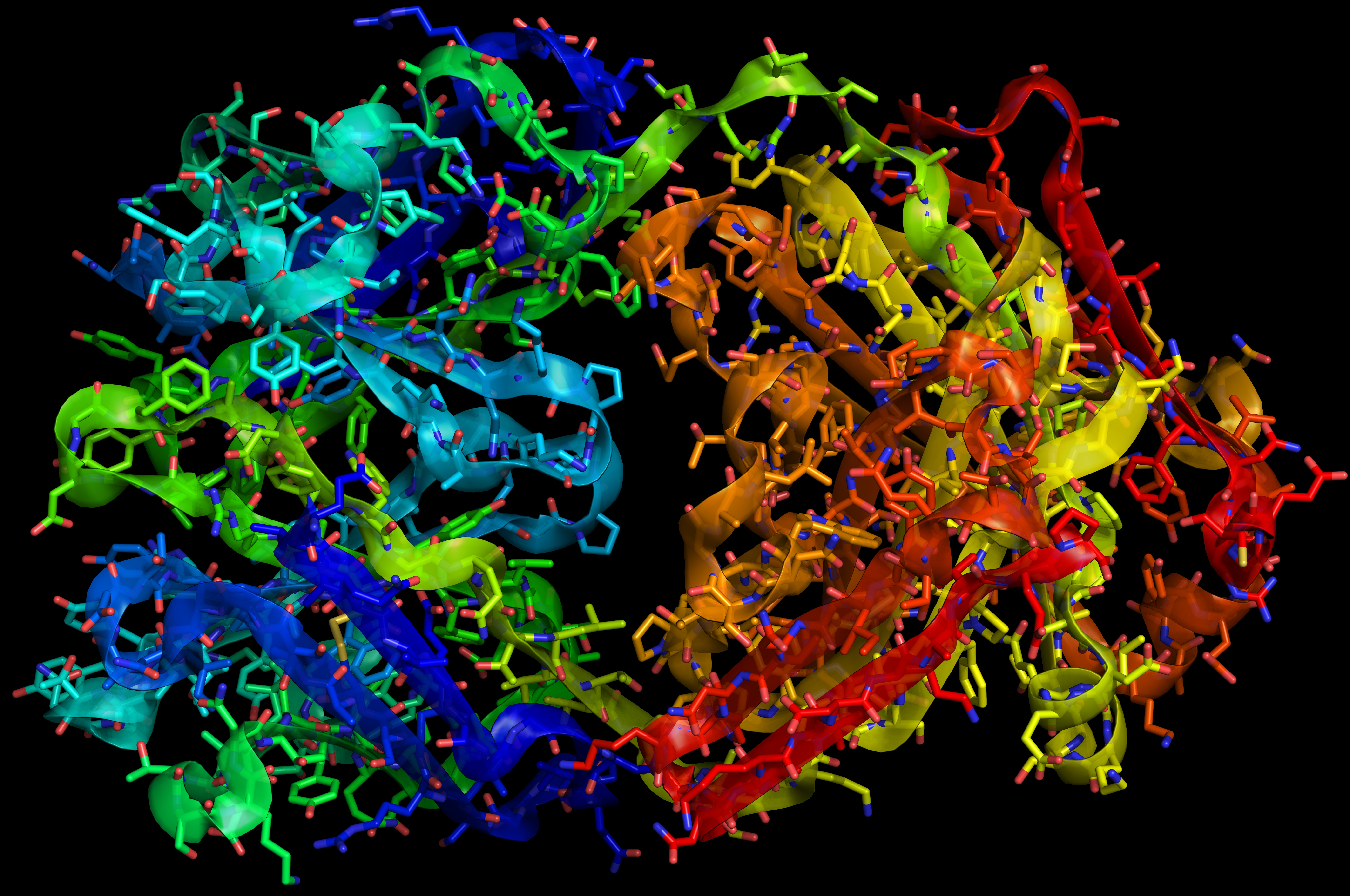 Herceptin Fab (antibody) - light and heavy chains. Link: PDB 1N8Z.